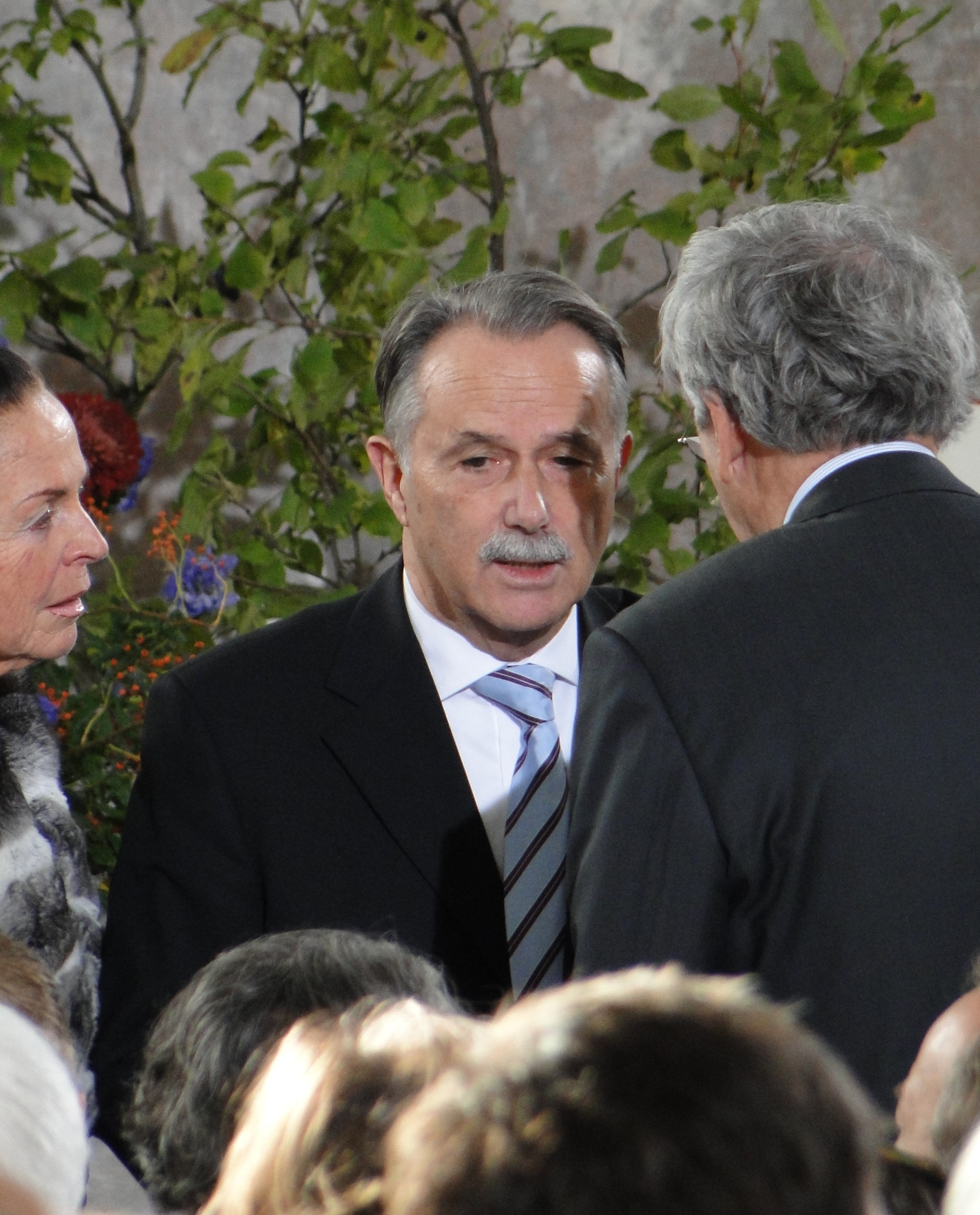 Klaus-Dieter Lehmann (president of the Goethe-Institut) and his wife have a talk with Michael Naumann, at the Paulskirche in Frankfurt am Main, 2009